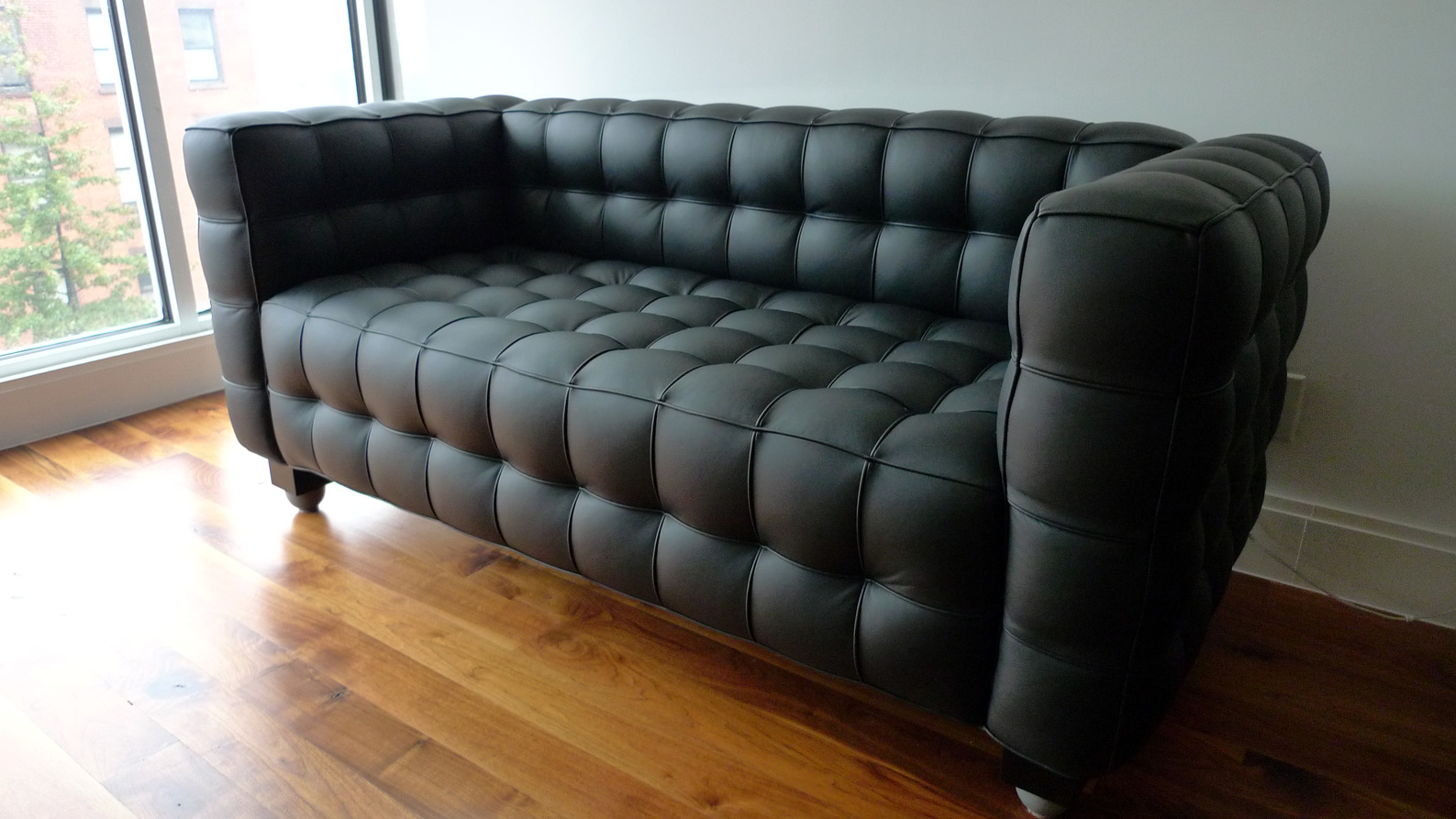 Modern production of Kubus sofa designed by Josef Hoffmann